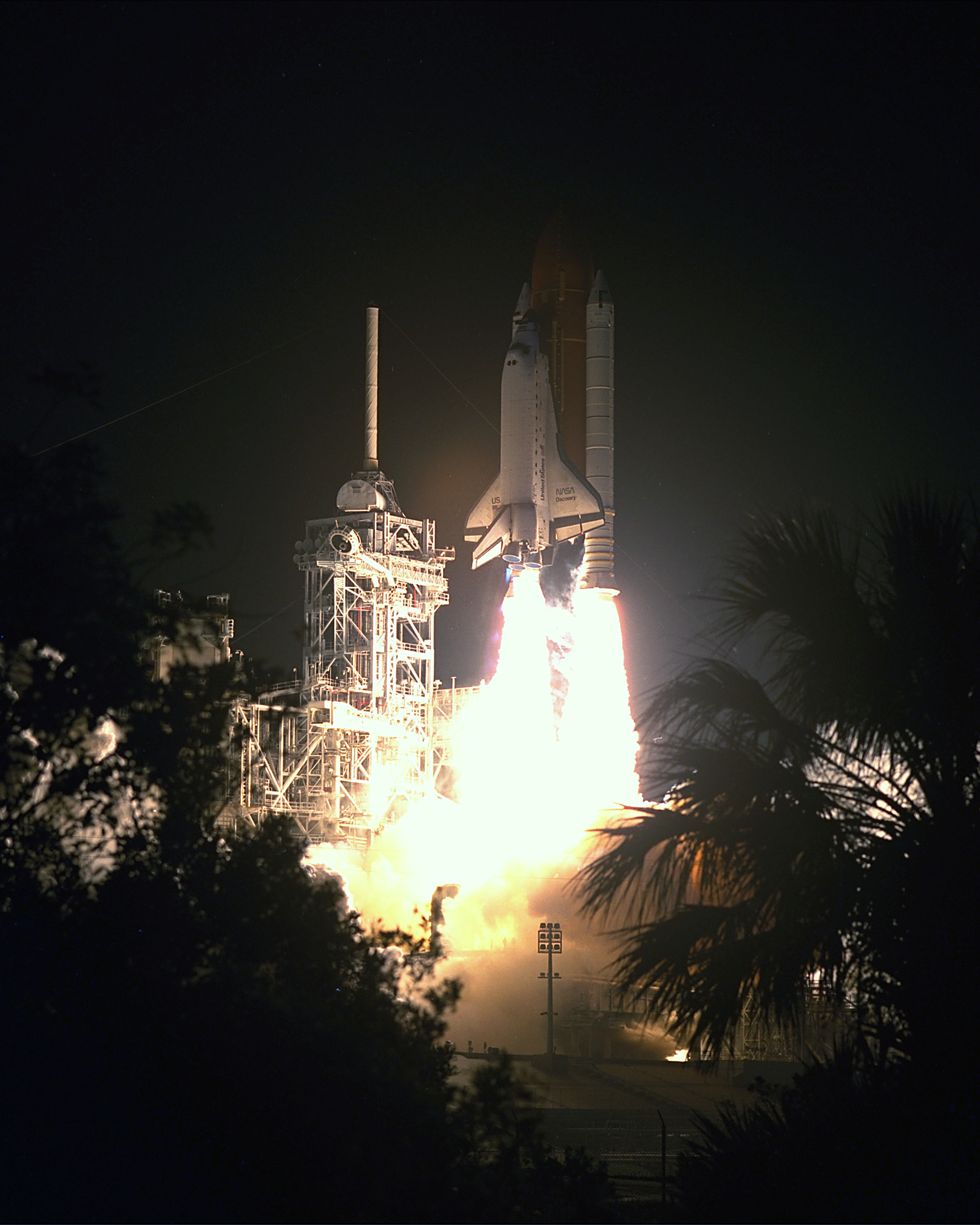 The second try works like a charm as the Space Shuttle Discovery lifts off from Launch Pad 39B on Mission STS-56 at 1:29:00 a.m., EDT, April 8. First attempt to launch Discovery on its 16th space voyage was halted at T-11 seconds on April 6. Aboard for the second Space Shuttle mission of 1993 are a crew of five and the Atmospheric Laboratory for Applications and Science 2 (ATLAS 2), the second in a series of missions to study the sun's energy output and Earth's middle atmosphere chemical makeup, and how these factors affect levels of ozone.